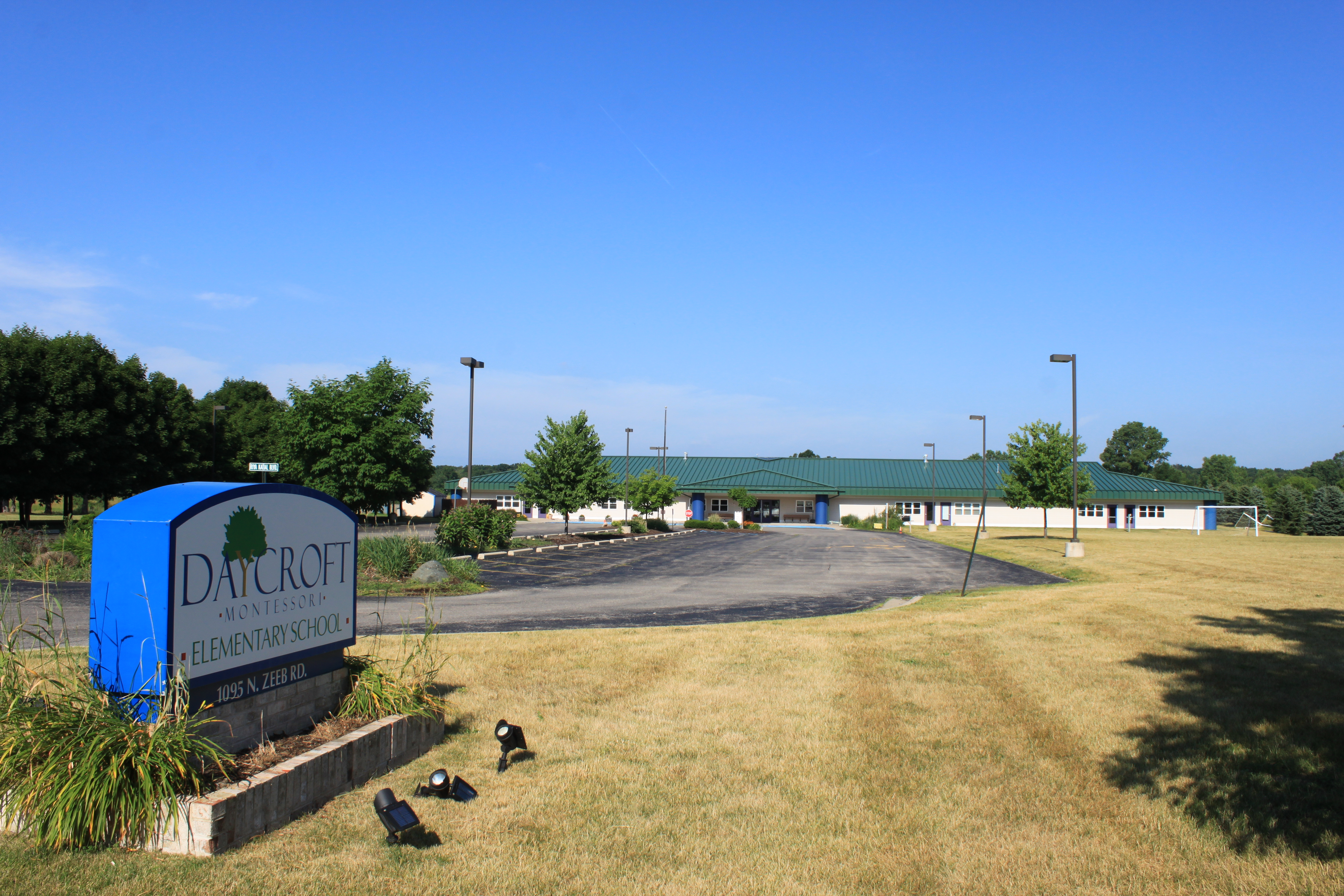 Daycroft Montessori Elementary School, 1095 North Zeeb Road, Scio Township, Michigan